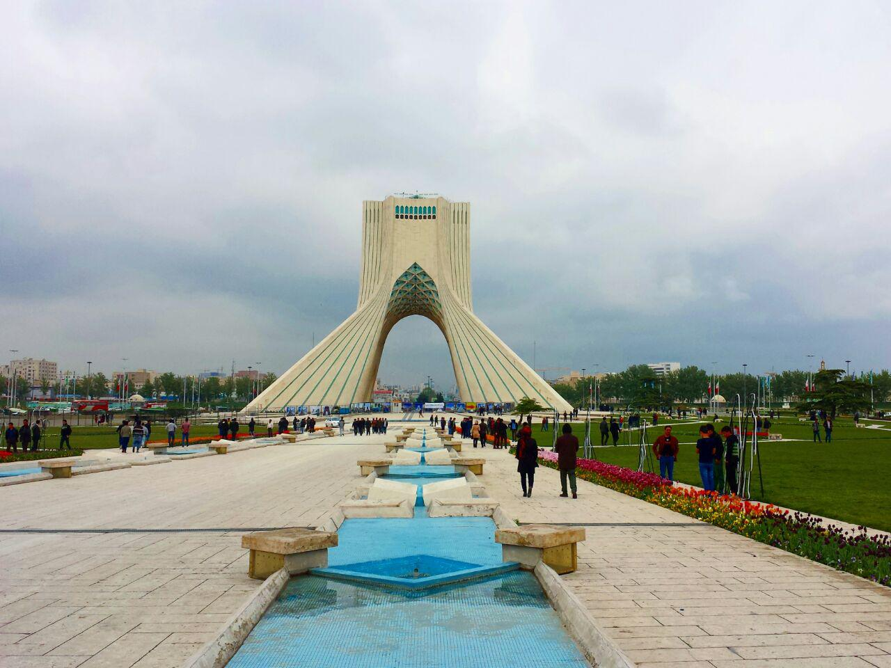 Azadi (freedom) tower, Tehran, Iran (April 2016)